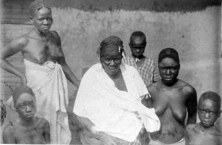 Madam Lehbu, queen of Upper Gaura. Photo from The National Archives UK